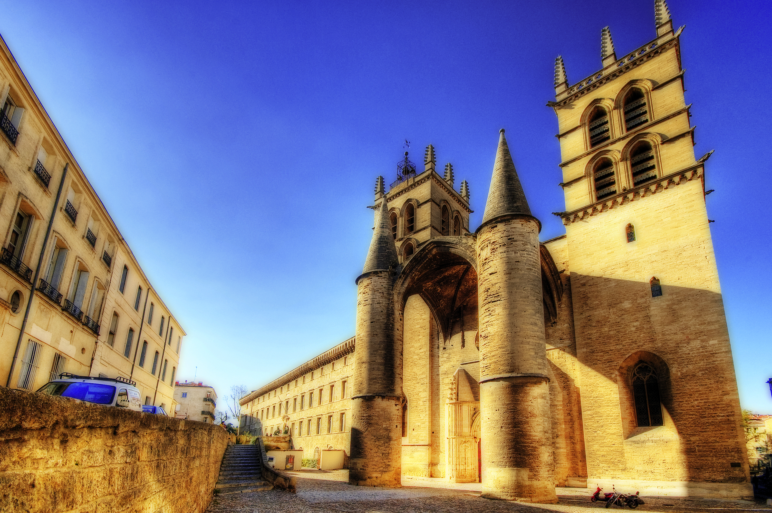 Take here a large view! Montpellier Cathedral (Cathédrale Saint-Pierre de Montpellier) is a Roman Catholic cathedral, and a national monument of France, located in the town of Montpellier. It is the seat of the Archbishops, previously Bishops, of Montpellier. Originally a church attached to the monastery of Saint-Benoît (founded in 1364), the building was elevated to the status of cathedral in 1536, when the see of Maguelonne was transferred to Montpellier. It suffered extensive damage during the Wars of Religion between Catholics and Protestants in the 16th century, and was subsequently rebuilt in the 17th. From Wikipedia, the free encyclopedia